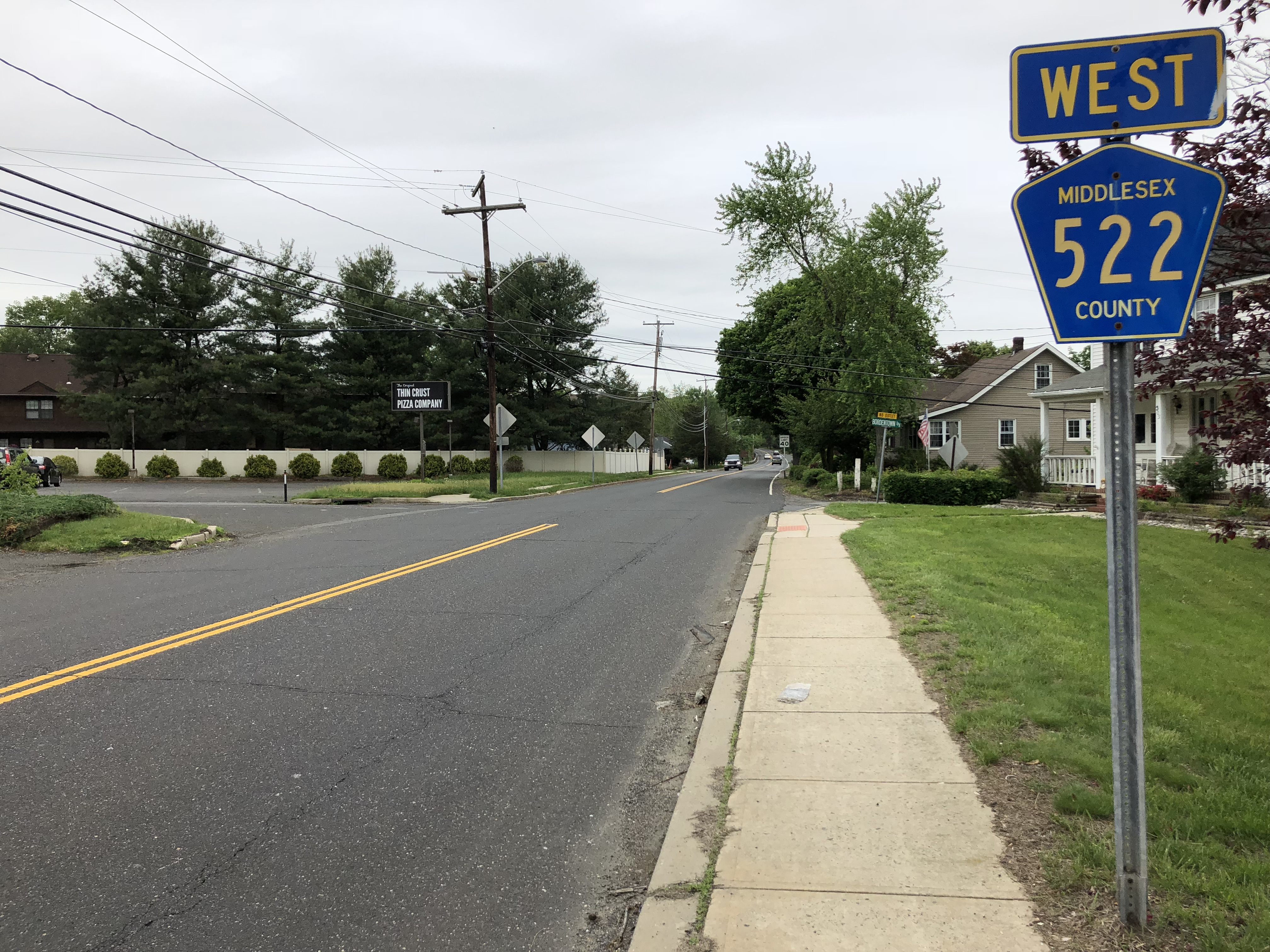 View west along Middlesex County Route 522 (Rhode Hall Road) just west of Middlesex County Route 698 (Dayton Road) in Jamesburg, Middlesex County, New Jersey